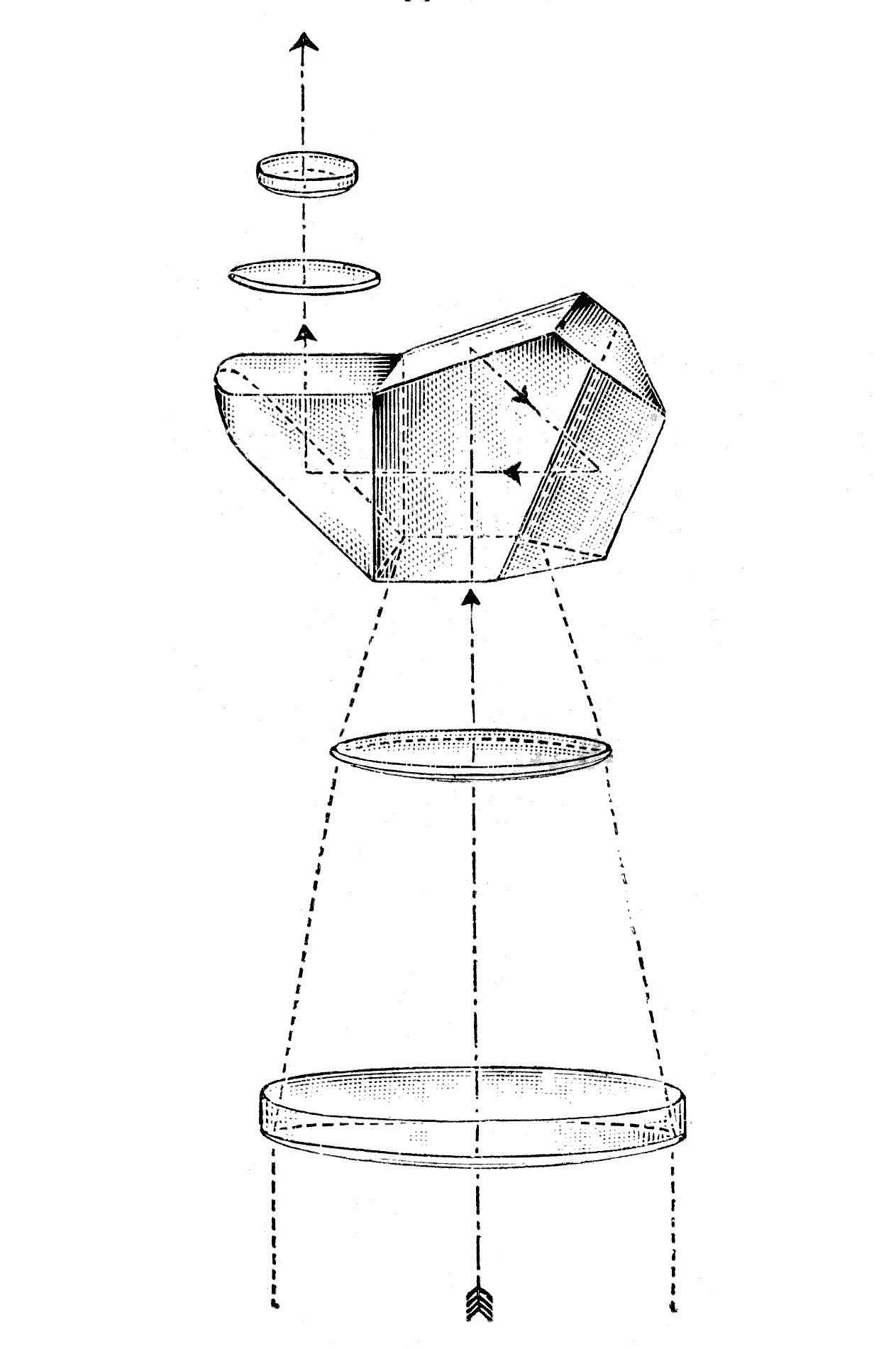 Engineering drawing of a binocular spy-glass